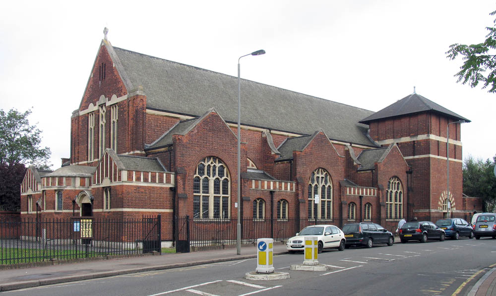 St Mary's parish church, Keble Street, Summerstown, London SW17, seen from the south from Wimbledon Road